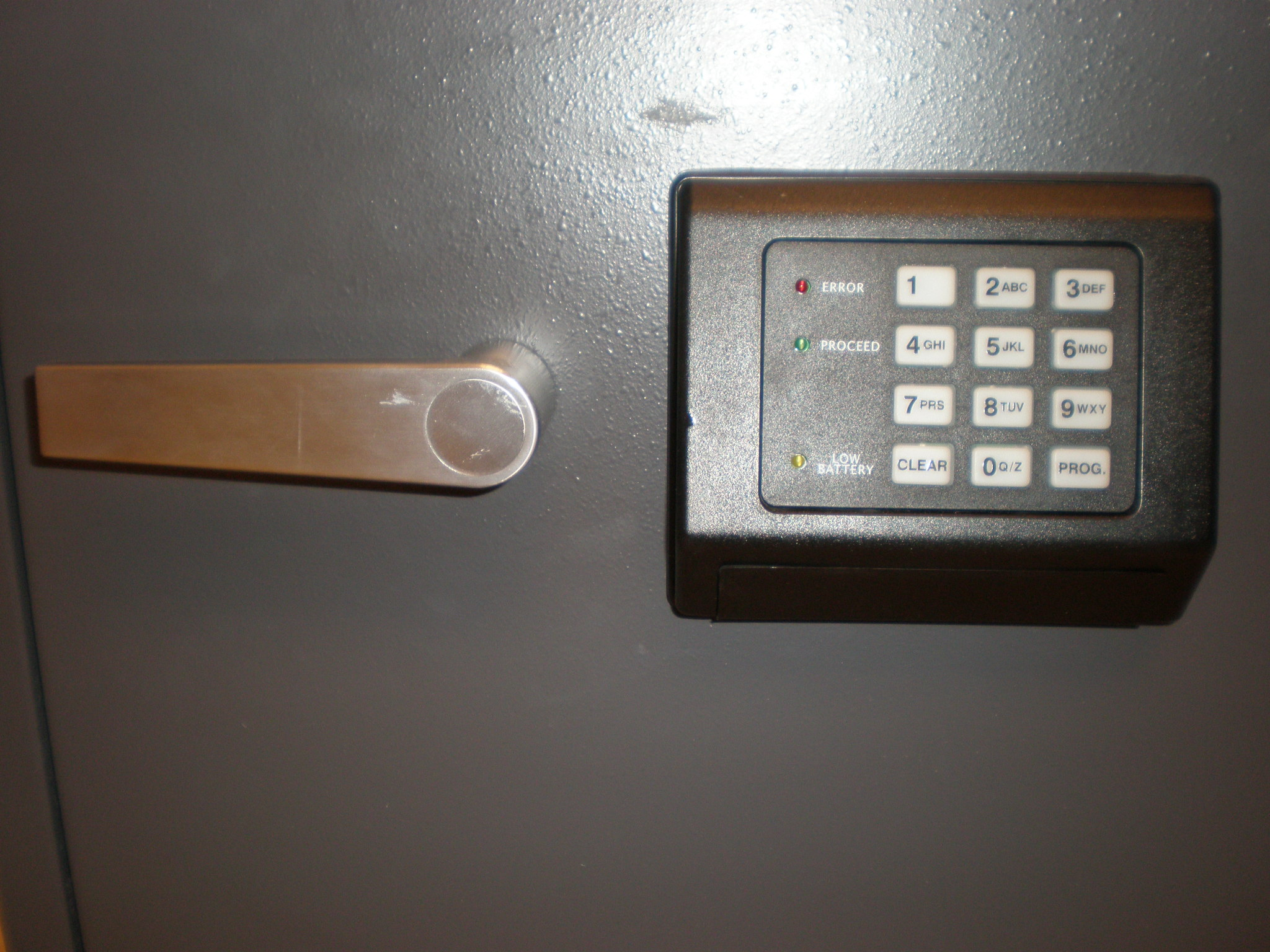 The combination panel of a FireKing KV2015-2 safe, class 350-2R.